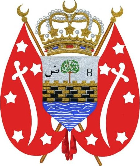 Mutawakkilite Kingdom of Yemen